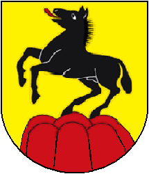 Coat of arms of La Chaux-des-Breuleux, Canton of Jura, Switzerland